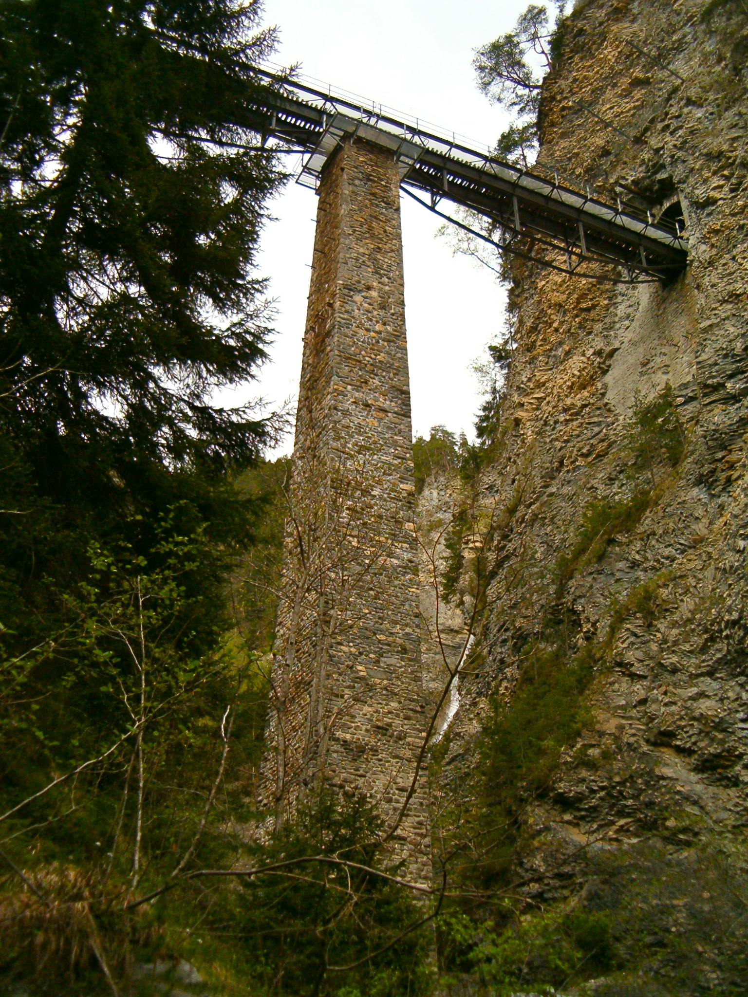 Castielertobel-Viaduct with main pillar